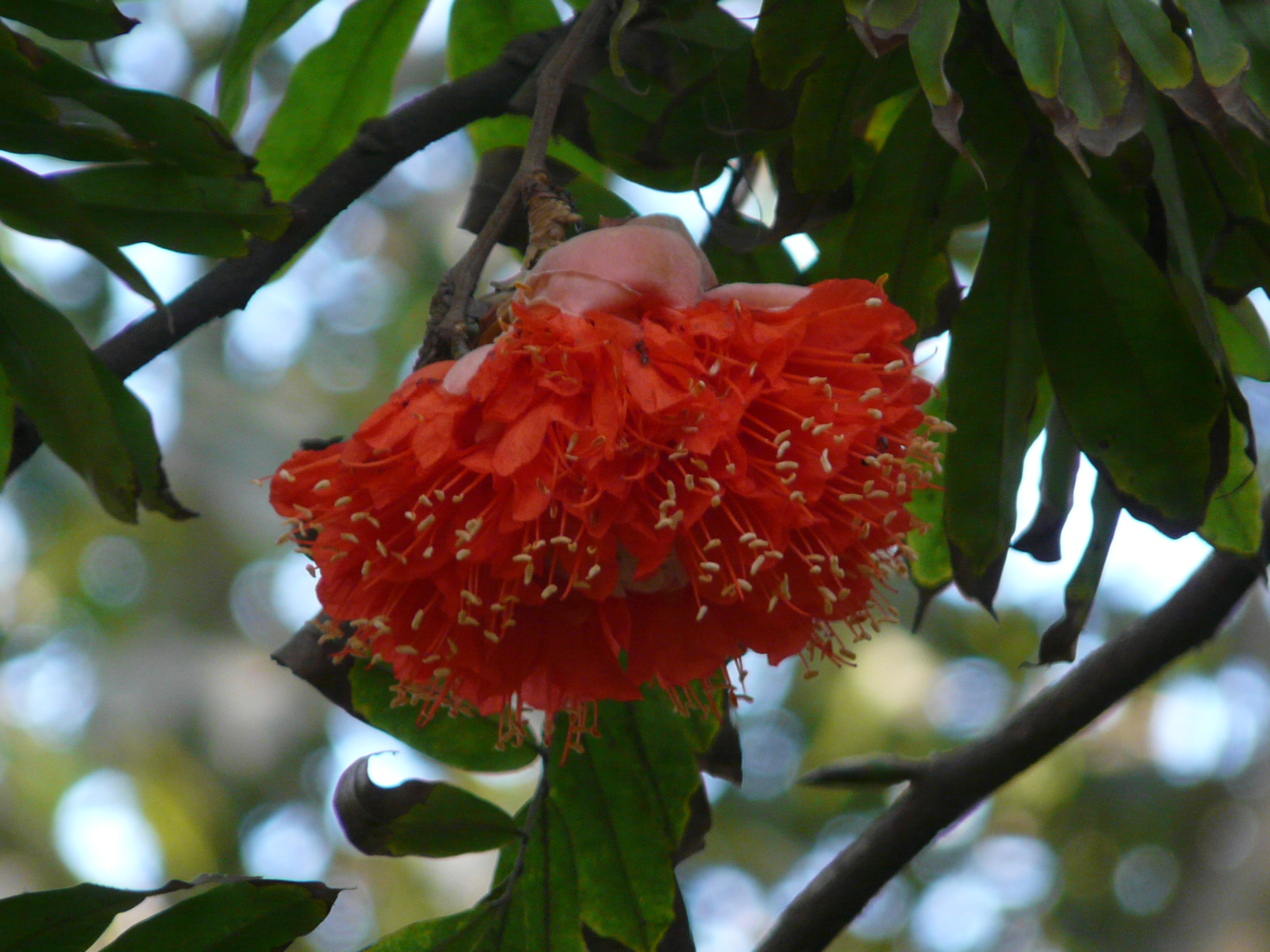 Caesalpiniaceae » Brownea coccinea BROW-nee-uh -- named for Patrick Browne, Irish botanist and author kok-SIN-ee-uh -- meaning, red commonly known as: brownea, cooper hoop, rose of Venezuela, scarlet flame bean, West Indian mountain rose • Bengali: supti • Marathi: लाल झुंबर lal zumbar Native to: Guyana, Venezuela, Brazil and Trinidad and Tobago References: Flowers of India • NPGS / GRIN • Wikipedia • ILDIS